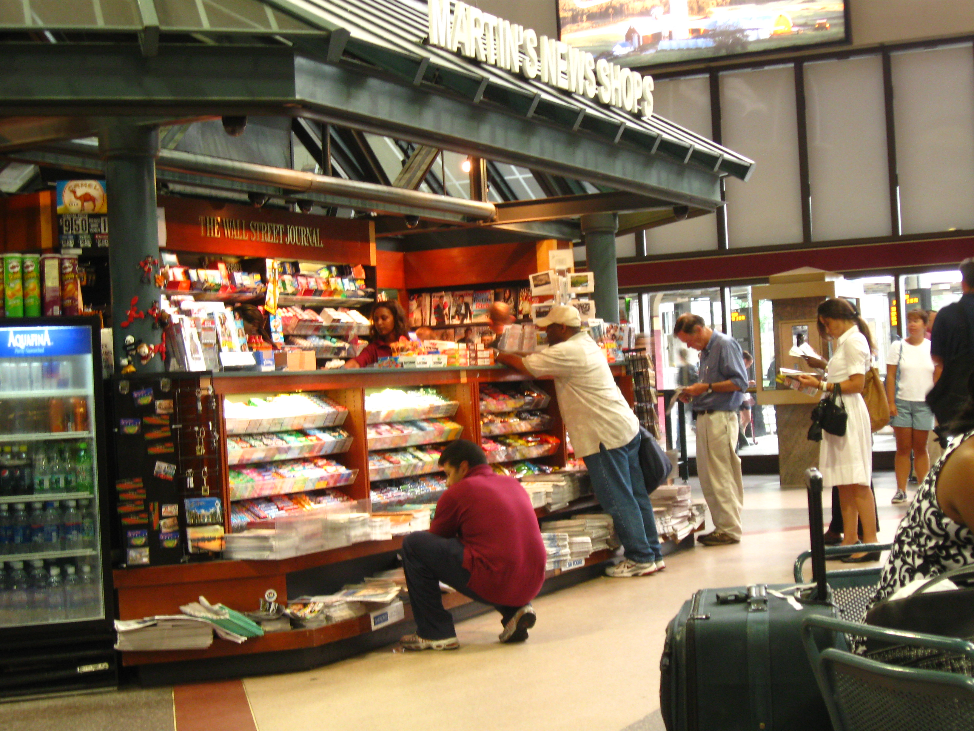 News Stand